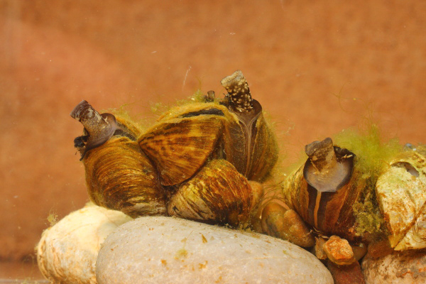 Dreissena presbensis, Lake Prespa, Macedonia